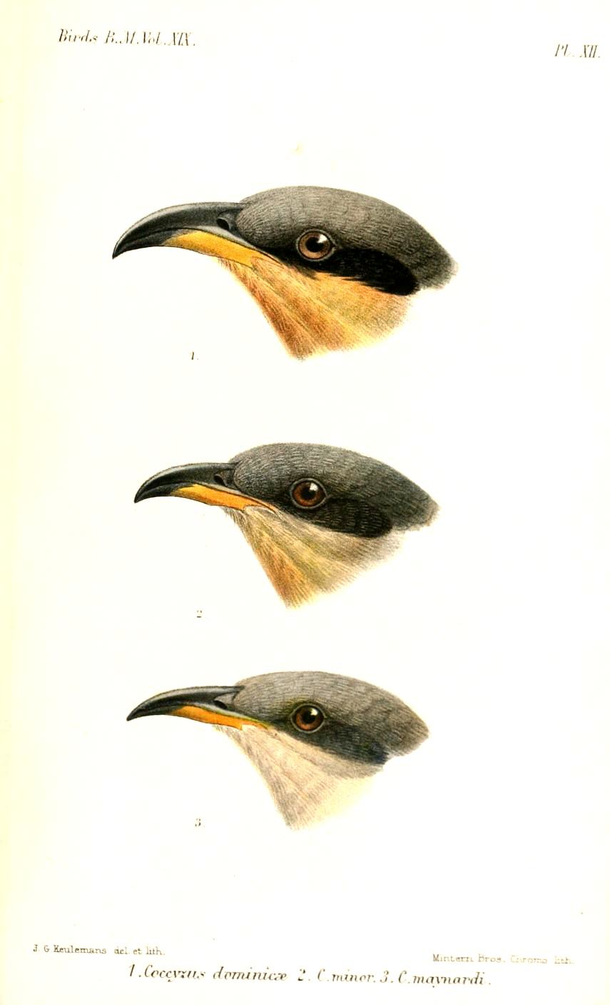 Mangrove Cuckoo, individual variation